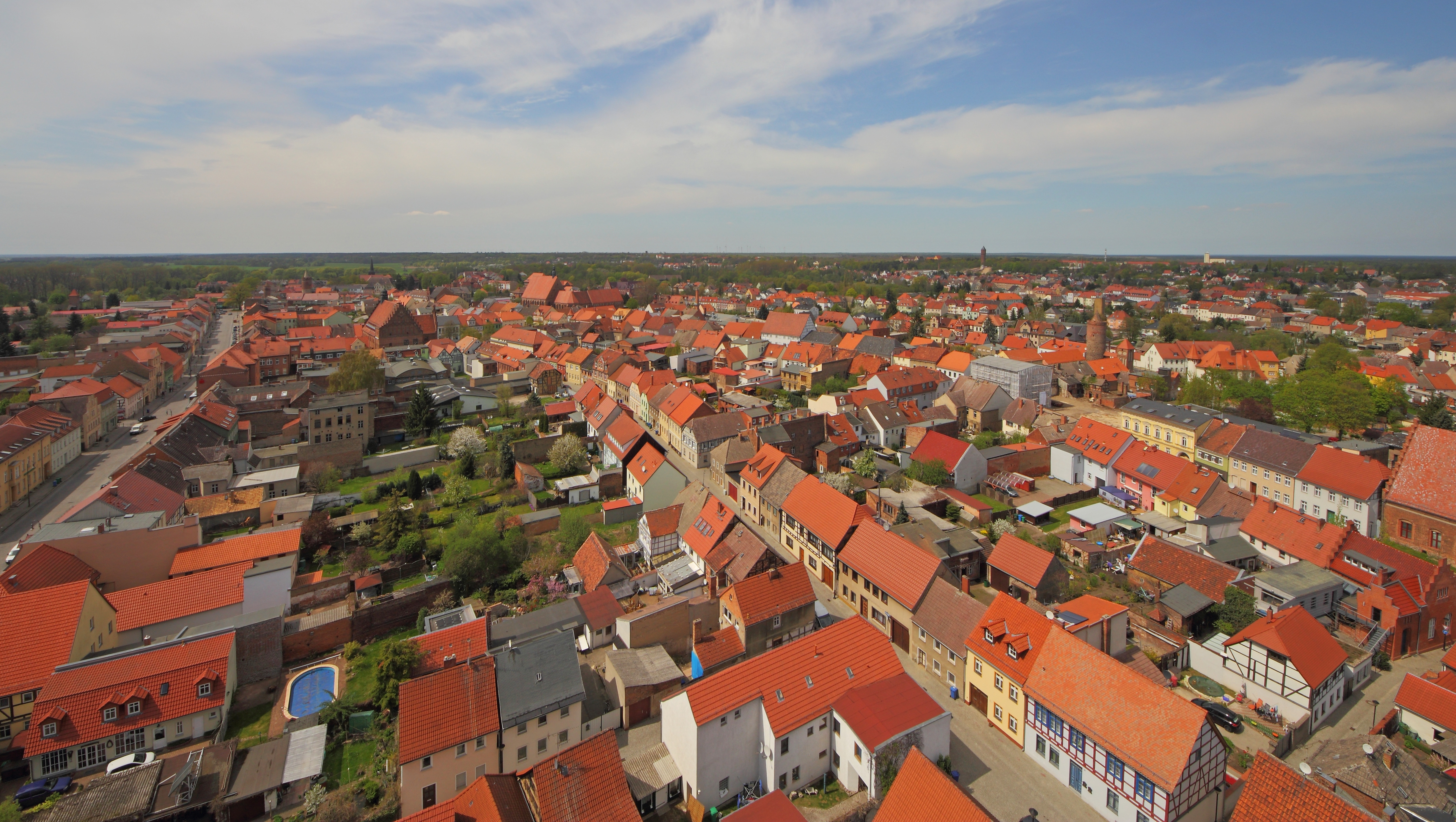 View from St. Nicholas Church in Jüterbog, Brandenburg, Germany